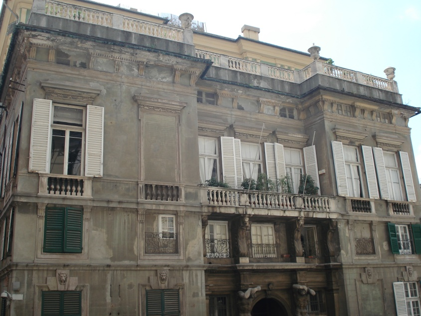 Gio Carlo Brignole Palace in Genova